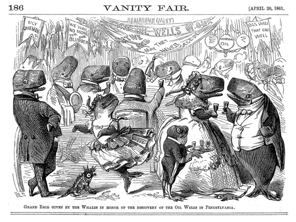 Sperm whales party for oil wells eliminating whaling